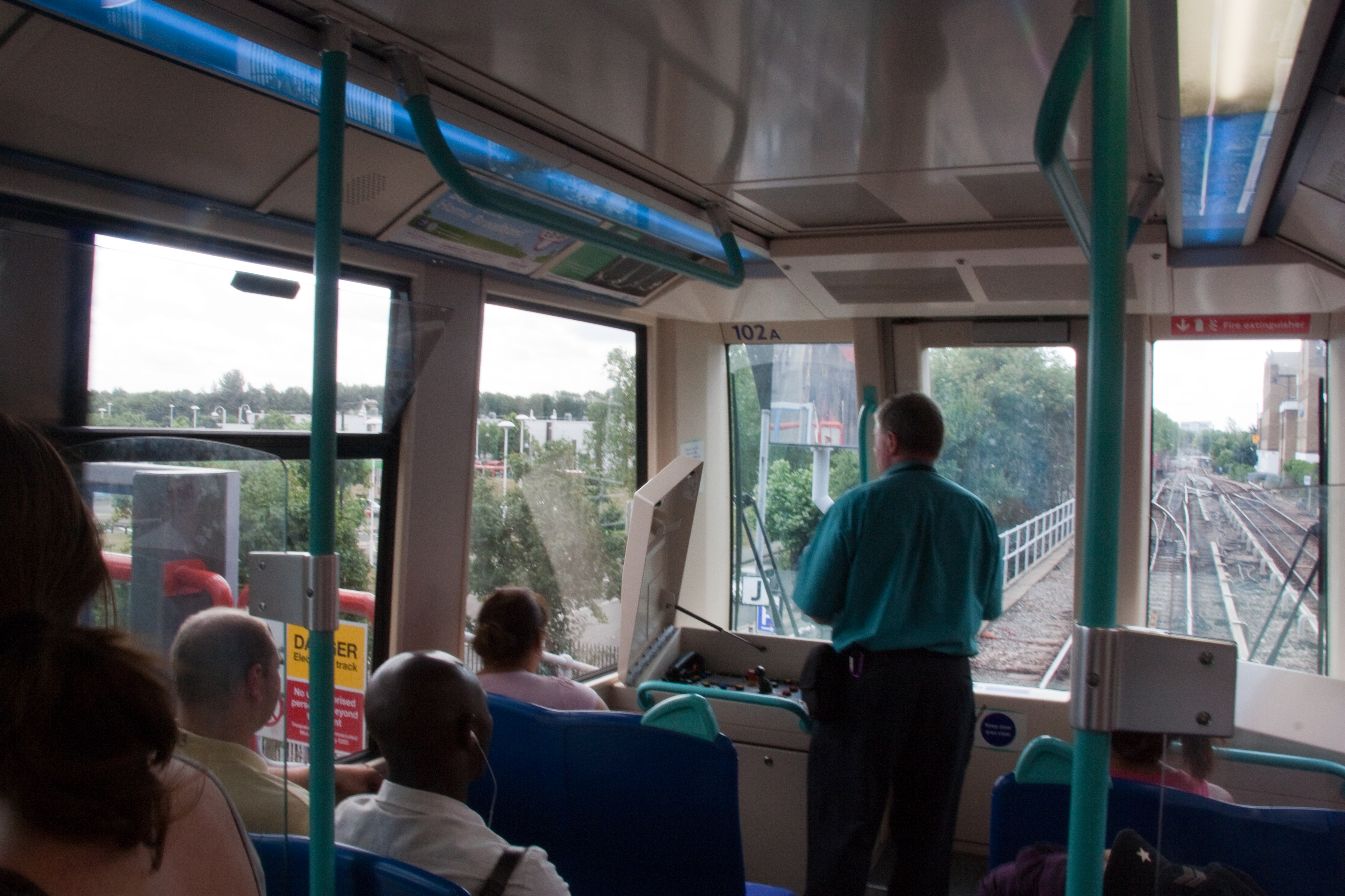 Passenegr service agent operating DLR unit 102 manually.